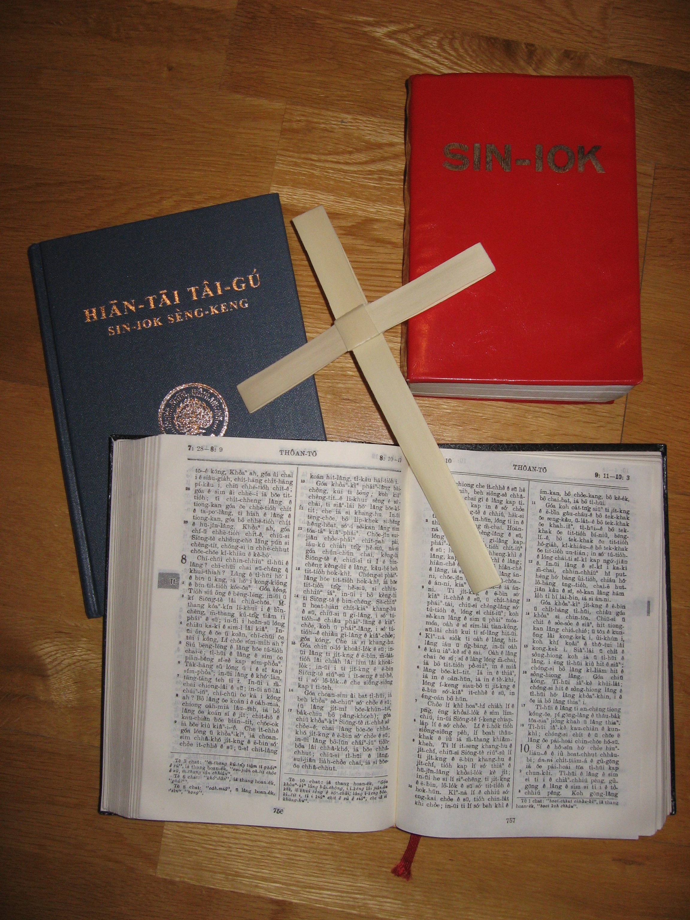 A collection of Bibles in Taiwanese.Bân-lâm-gú: iōng Tâi-gí pe̍h-ōe-jī siá ê Sèng-keng